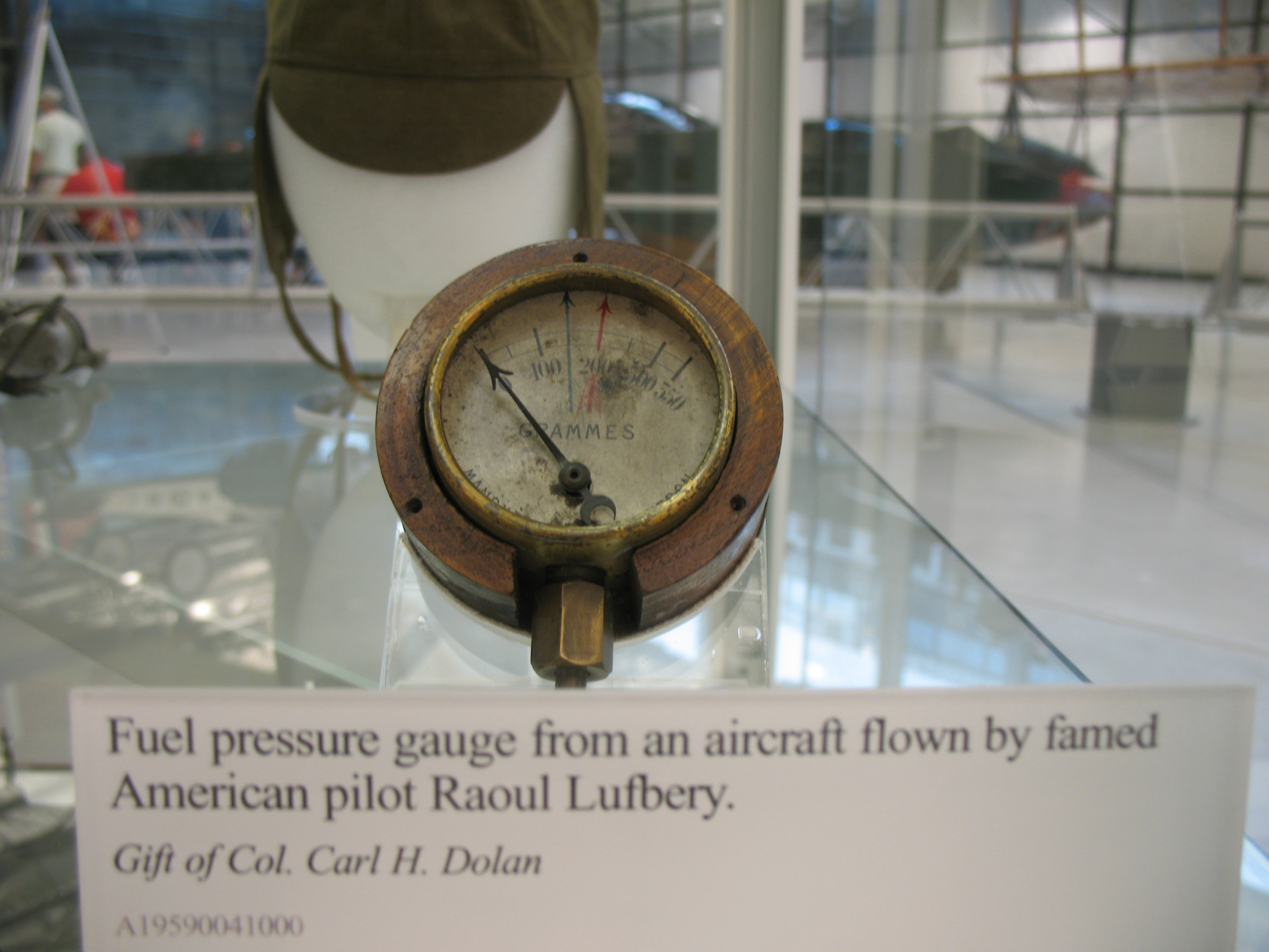 Fuel pressure gauge from an aircraft flown by American WWI pilot Raoul Lufbery.